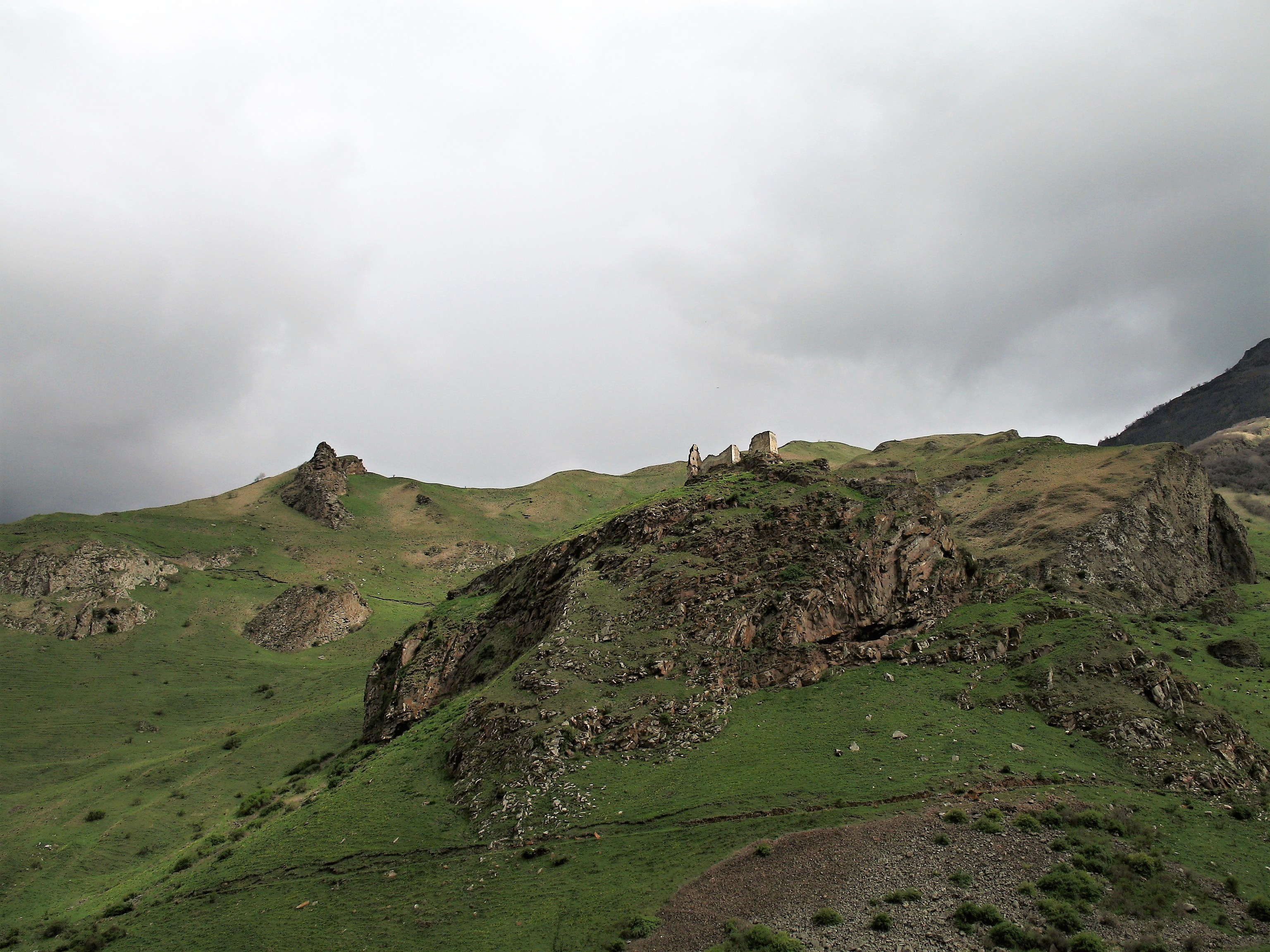 Ruine of Zhabo-Kala Castle near Bezengi